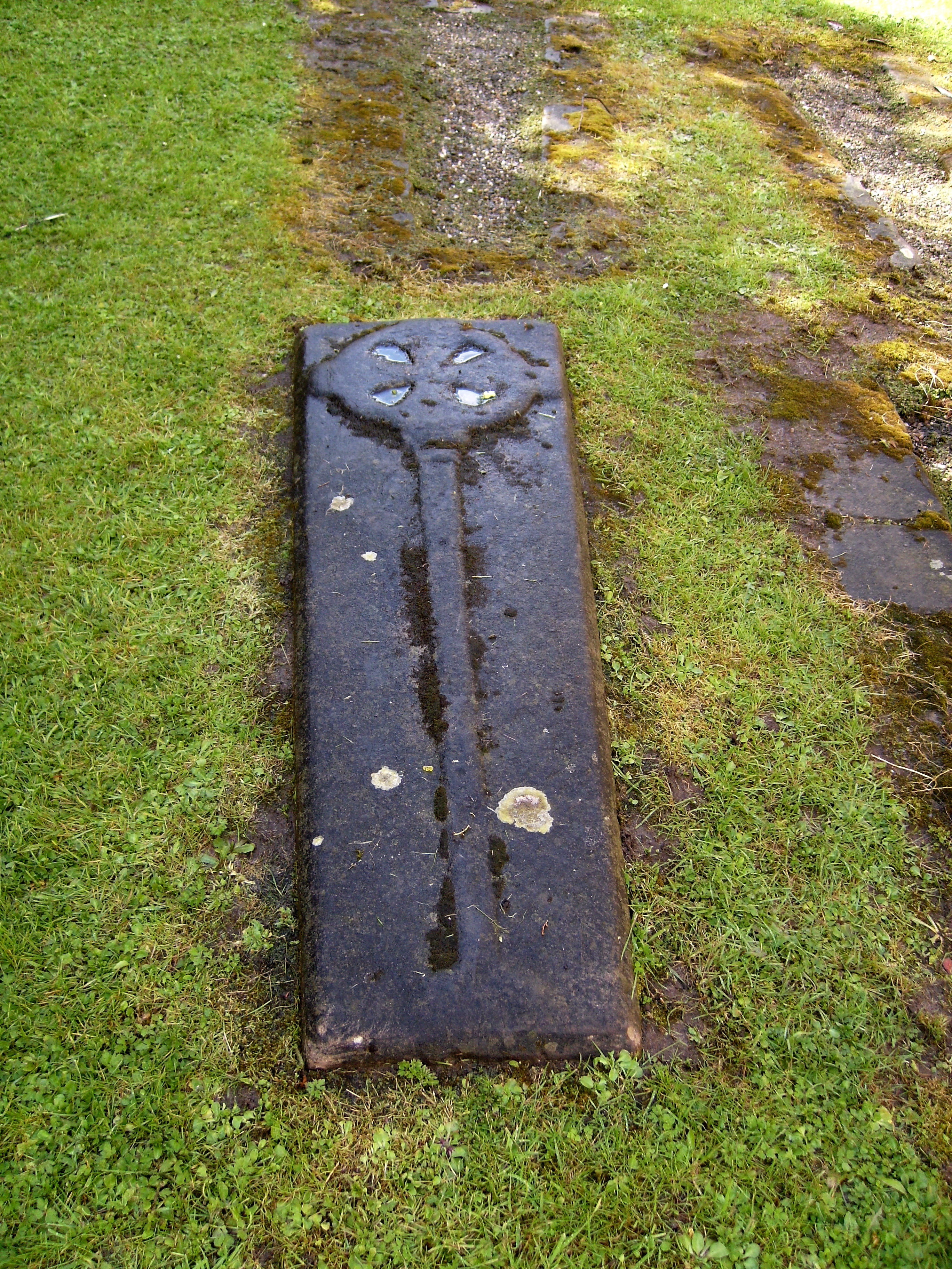 Tombstone to south of church. Lilleshall Abbey, Shropshire.